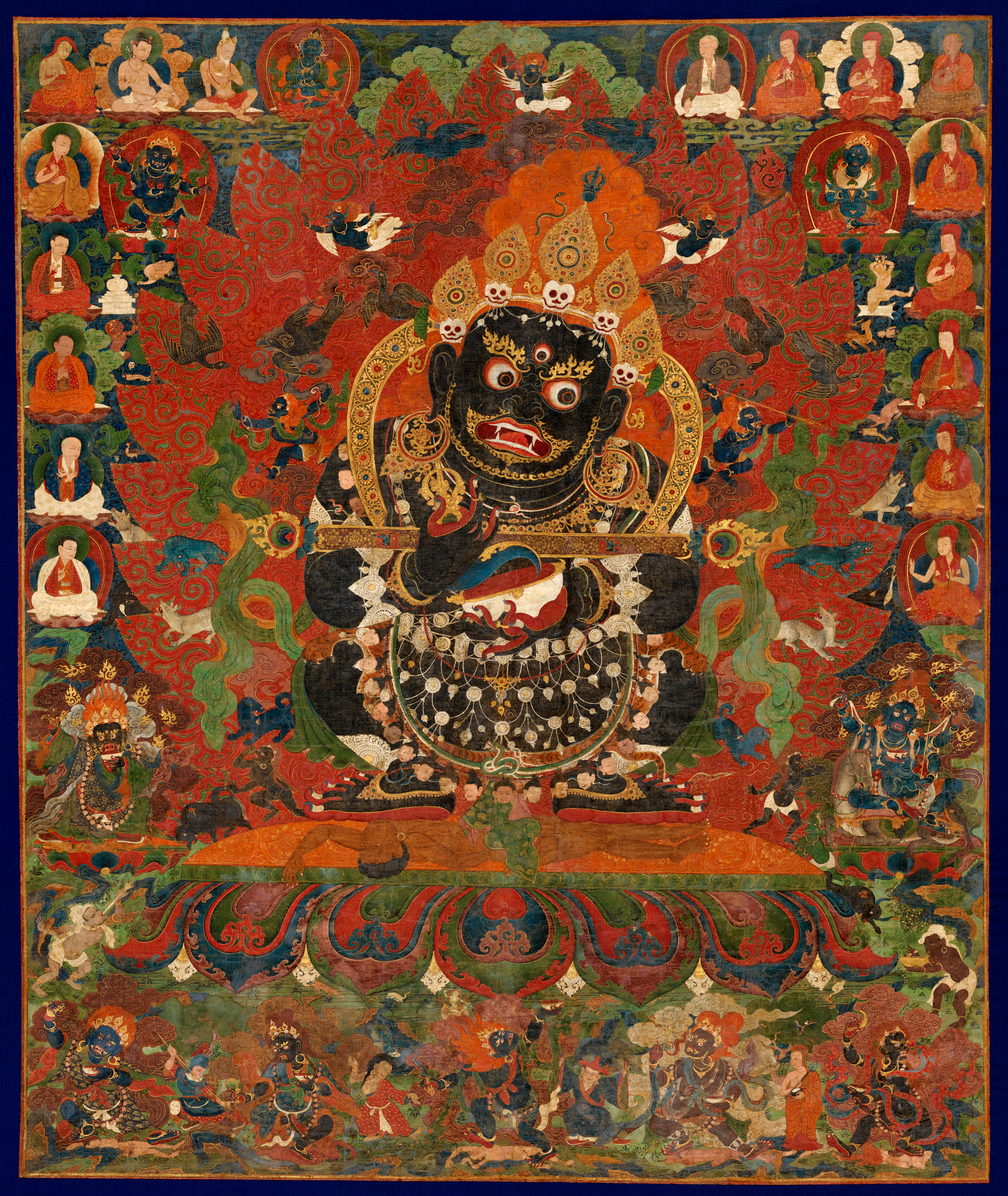 Mahakala, Protector of the Tent, Central Tibet. Distemper on cloth, 64 x 53 in. (162.6 x 134.6 cm). Mahakala is one of the most popular guardians in the Tibetan Buddhist pantheon. Here he tramples a corpse while wielding a flaying knife and a blood-filled skull cup, signifying the destruction of impediments to enlightenment. In the crooks of his elbows he supports a gandi gong, a symbol of his vow to protect the community of monks (sangha). His principal companions, Palden Remati and Palden Lhamo, appear to his left, and Legden Nagpo and Bhutadamara are at his right. At lower left is Brahmarupa blowing a thighbone trumpet. He is especially revered by the Sakya order, which commissioned this work. This tangka, one of the earliest and grandest of this subject, can be related to murals preserved in the fifteenth-century Kumbum at Gyantse monastery, central Tibet, likely painted under Newari direction.